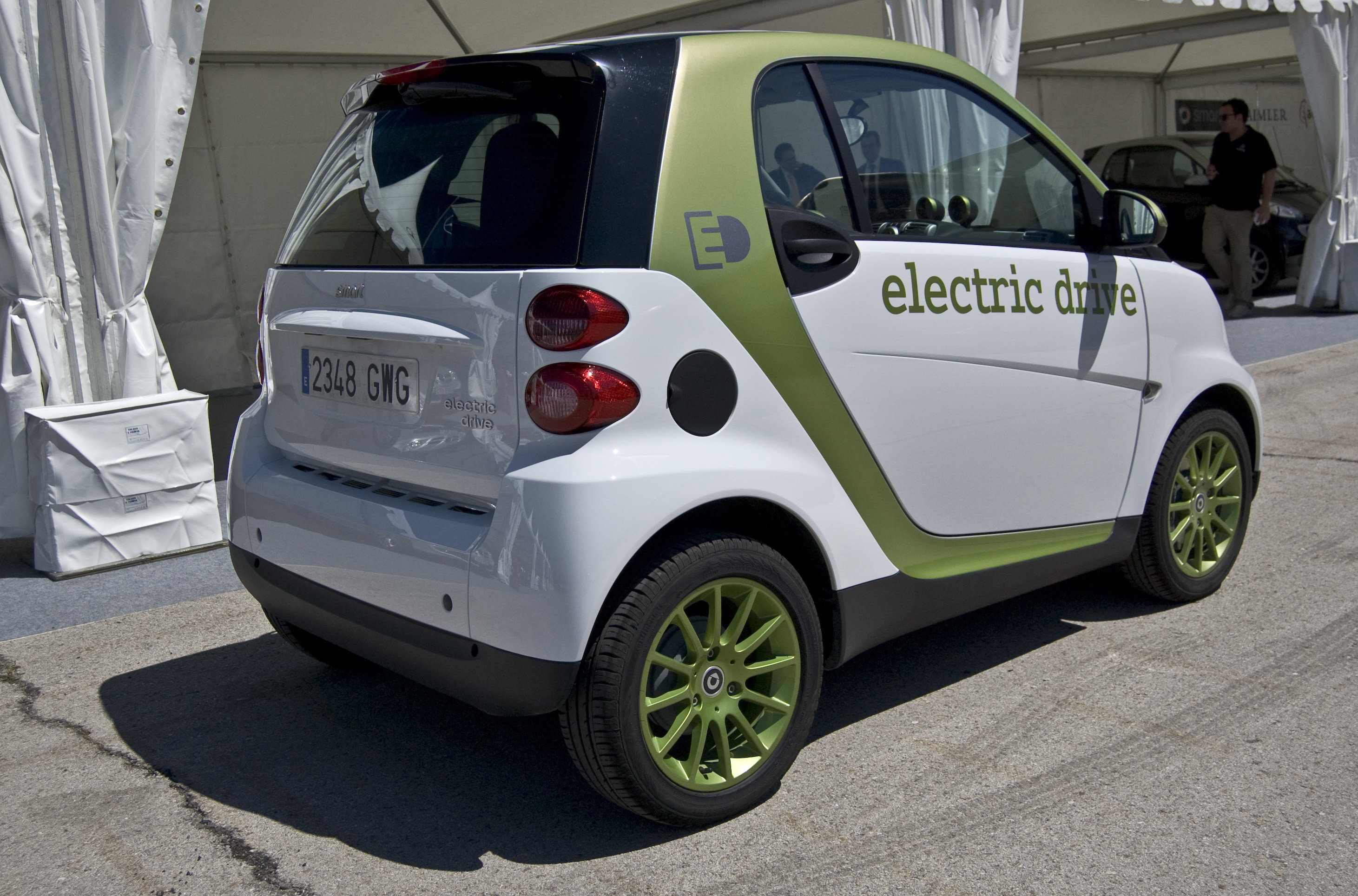 A Smart ED.